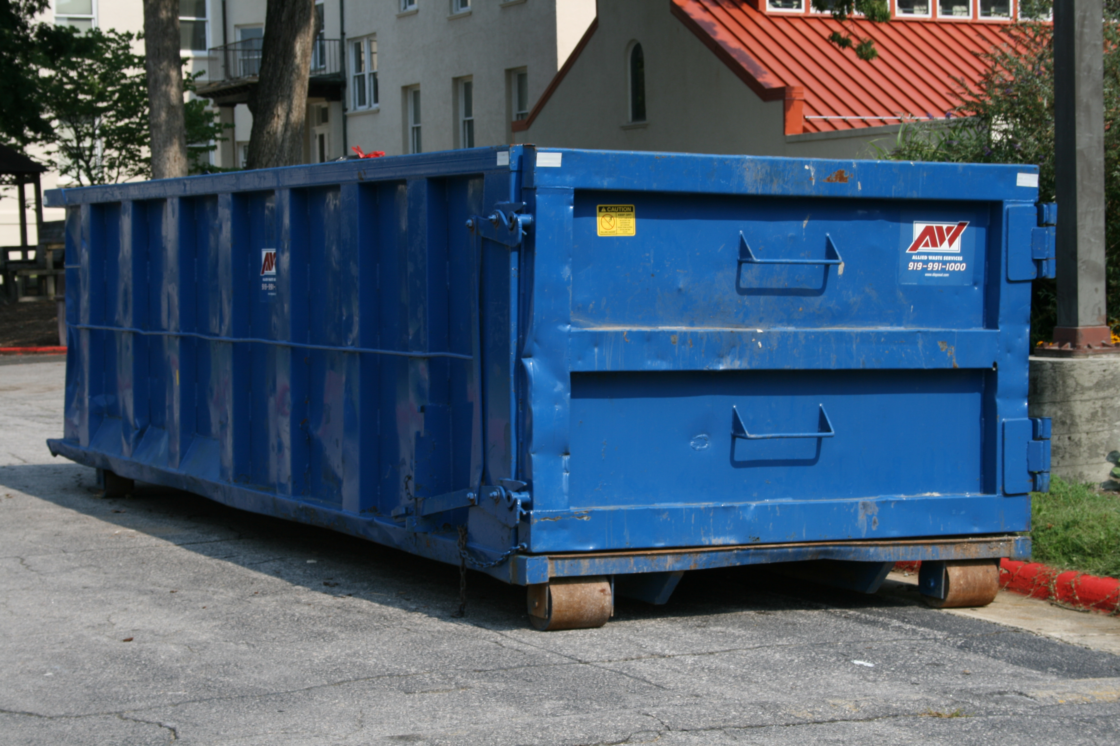 Blue Allied Waste Services rolloff container at the North Carolina School of Science and Mathematics in Durham, North Carolina.